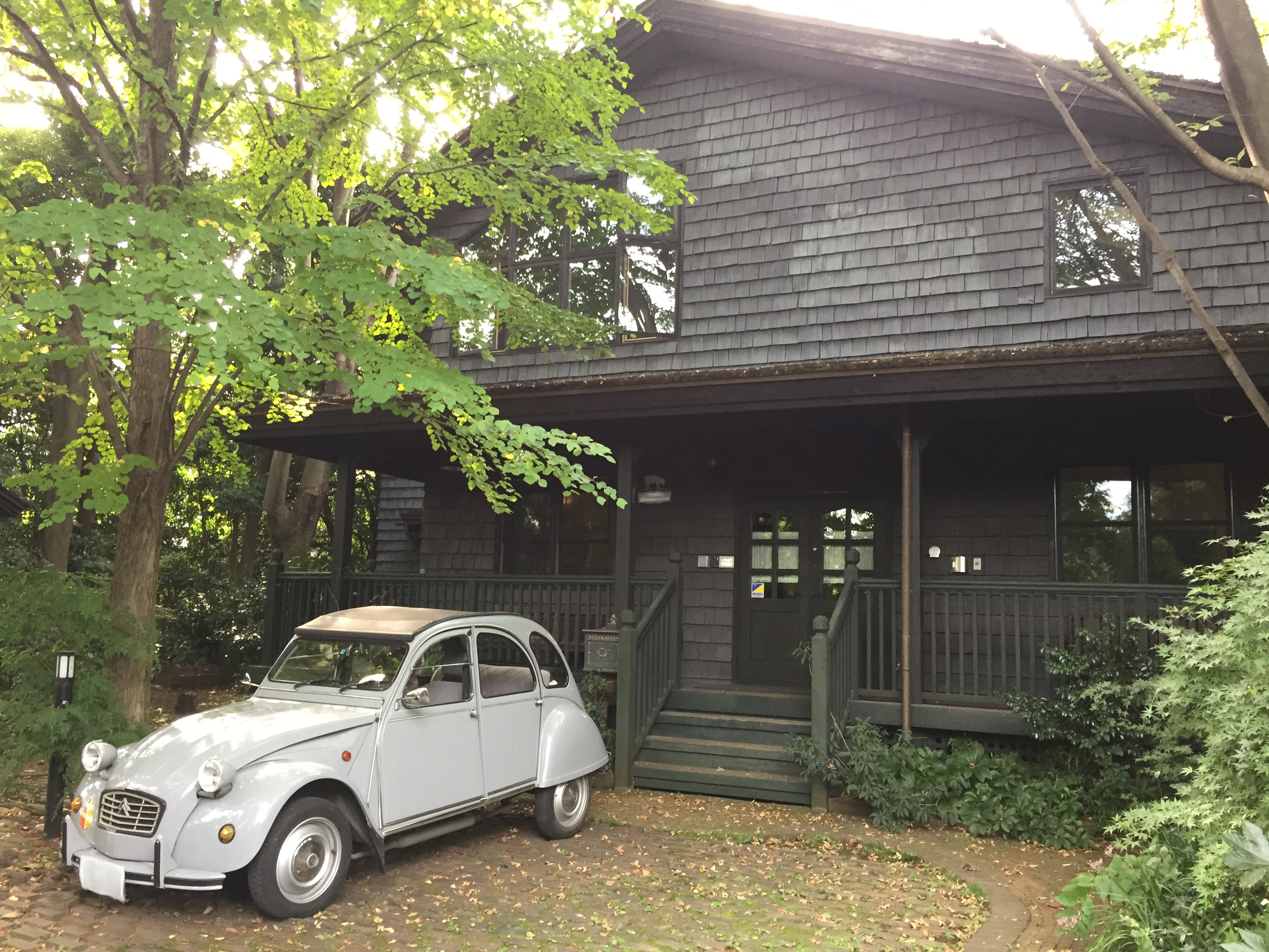 Hayao Miyazaki's personal studio, Nibariki (Butaya)